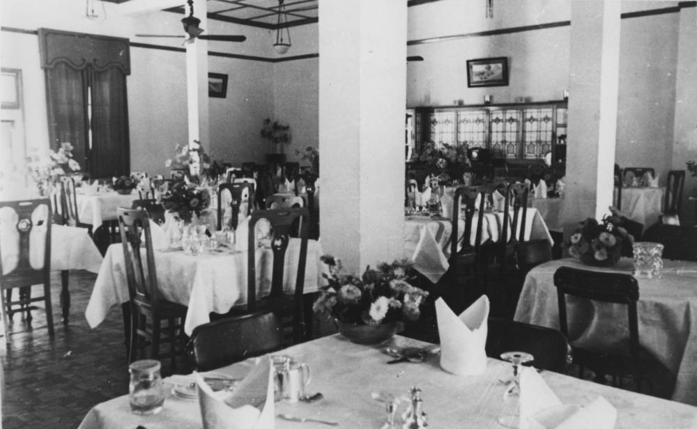 Dining room of the Hotel Corones, ca. 1930. The dining room of the hotel has a feature sideboard on the far wall which has stained glass features. This sideboard is still part of the dining room today. All the tables are covered with white cloths and set with place settings and napkins. An Art Deco light fitting is hanging from the ceiling in the far corner.